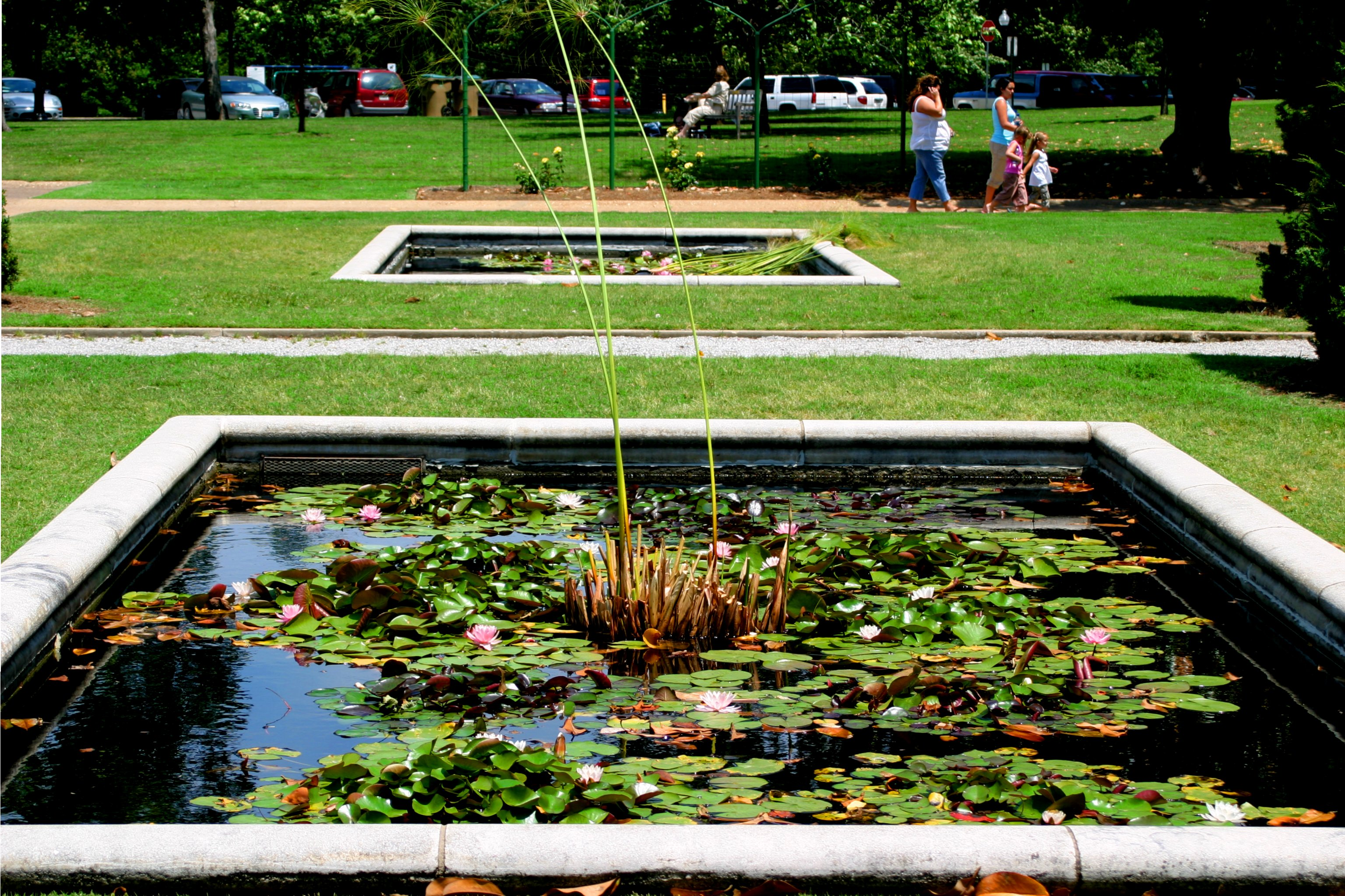 Lily Pond in Woodward Park, Tulsa, Oklahoma